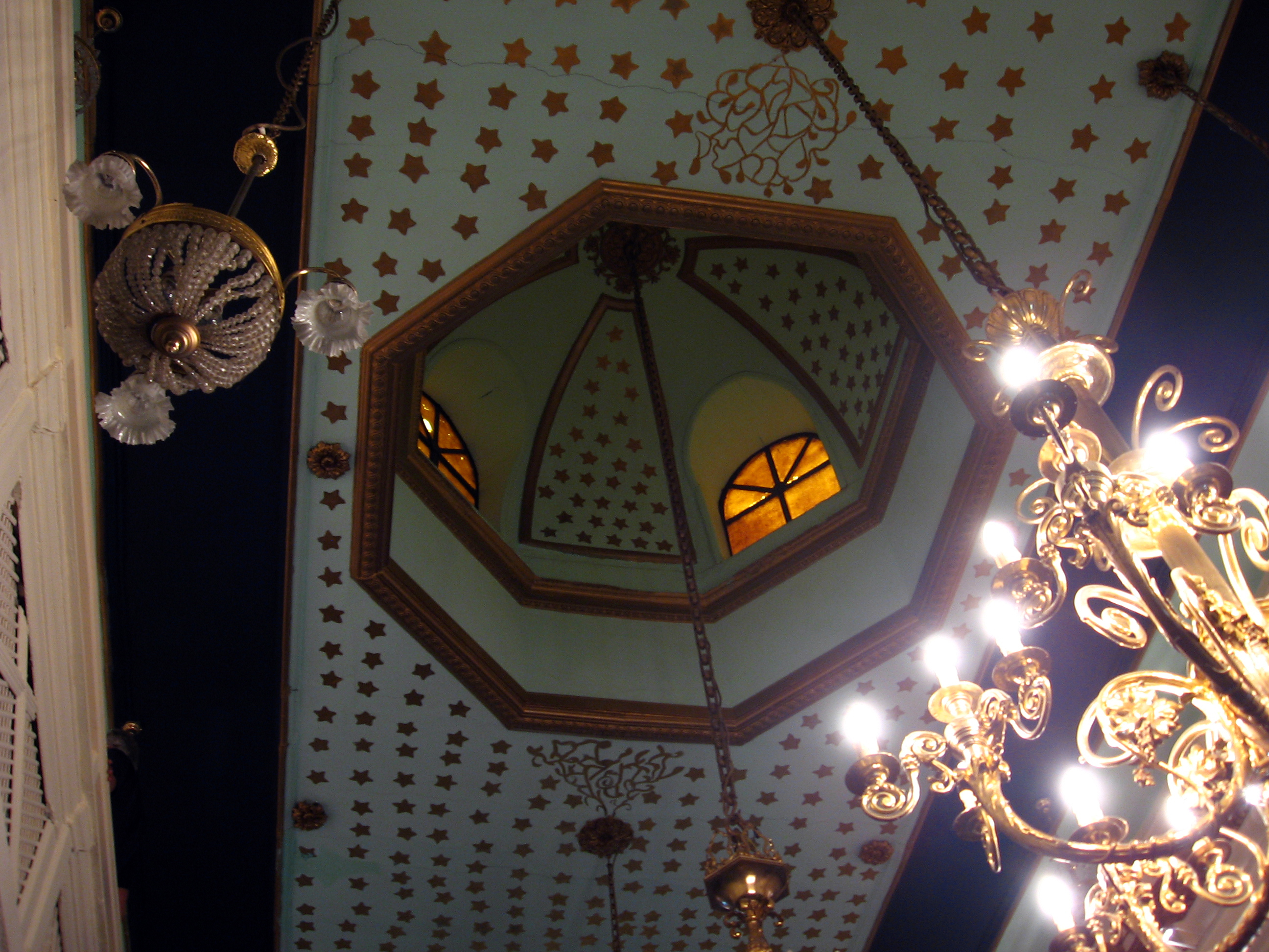 Interior view including chandelier and dome of the Jewish Museum of Turkey in Karaköy, Istanbul, formerly the Zulfaris Synagogue.